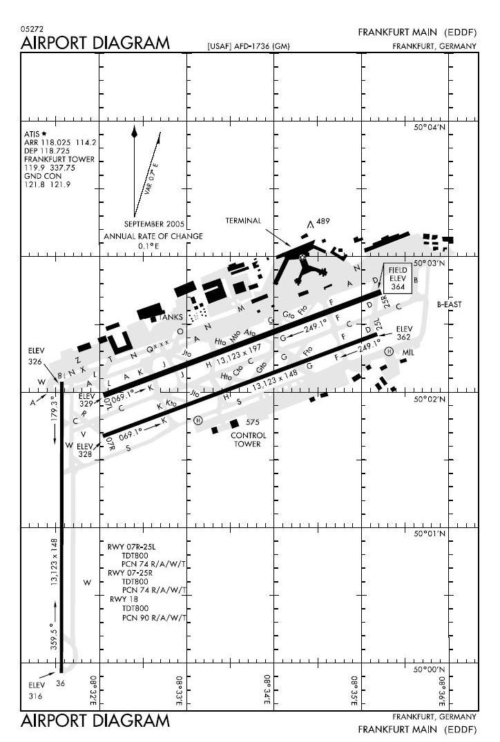 FAA airport diagram for Frankfurt International Airport (EDDF), formerly Rhein-Main Air Base, in Frankfurt, Germany.